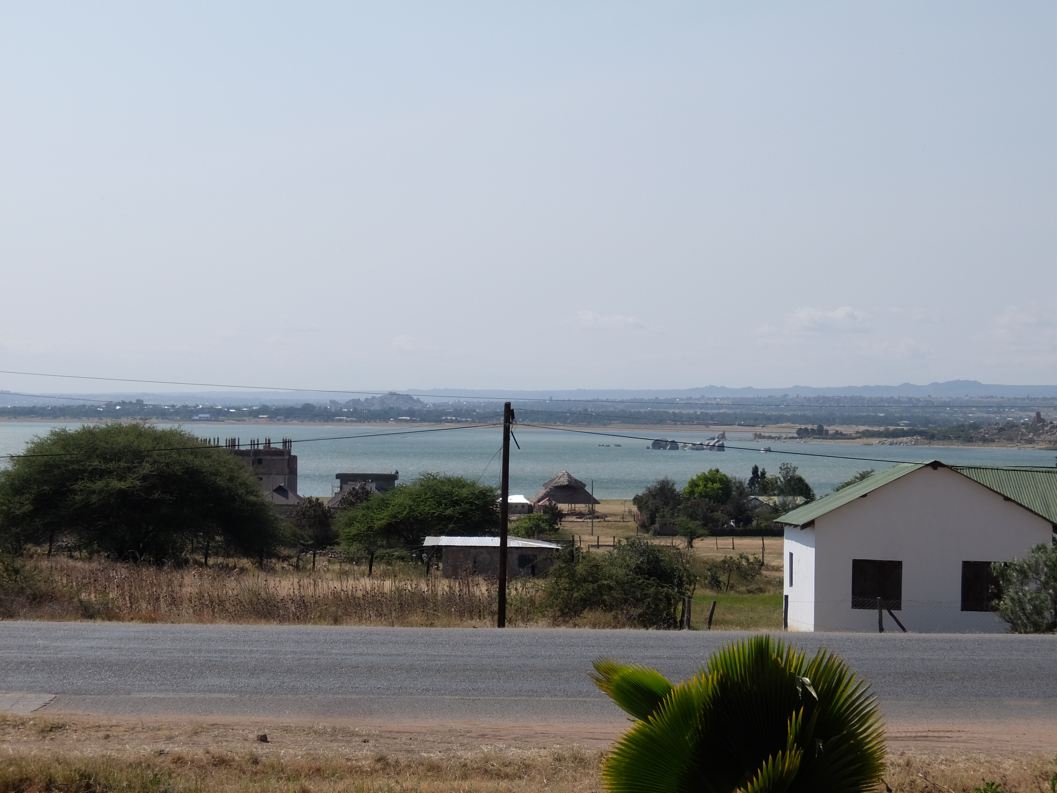 Lake Singida as seen from the main road from Nzega when entering Singida town.